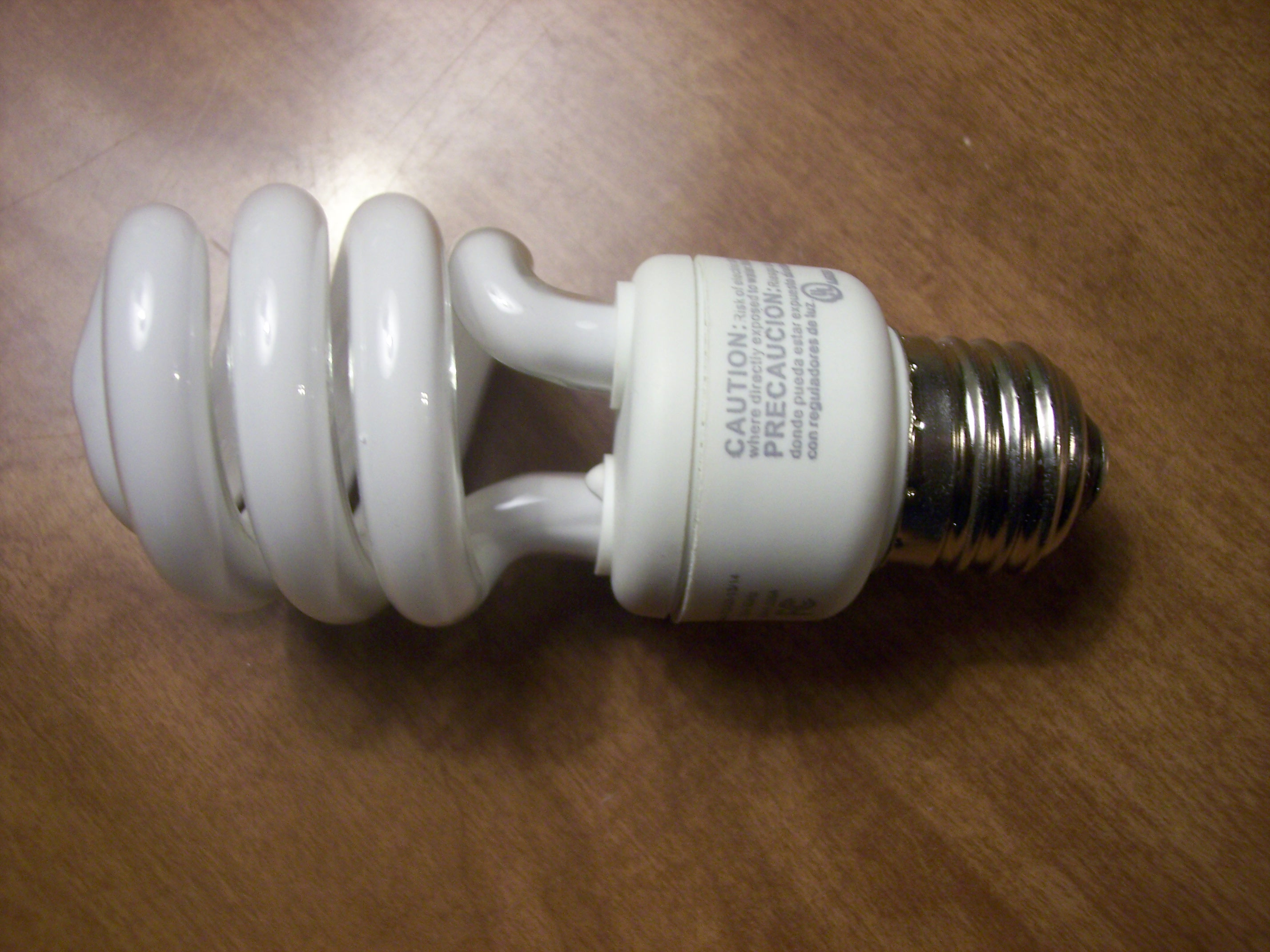 A compact fluorescent lamp for general or home use